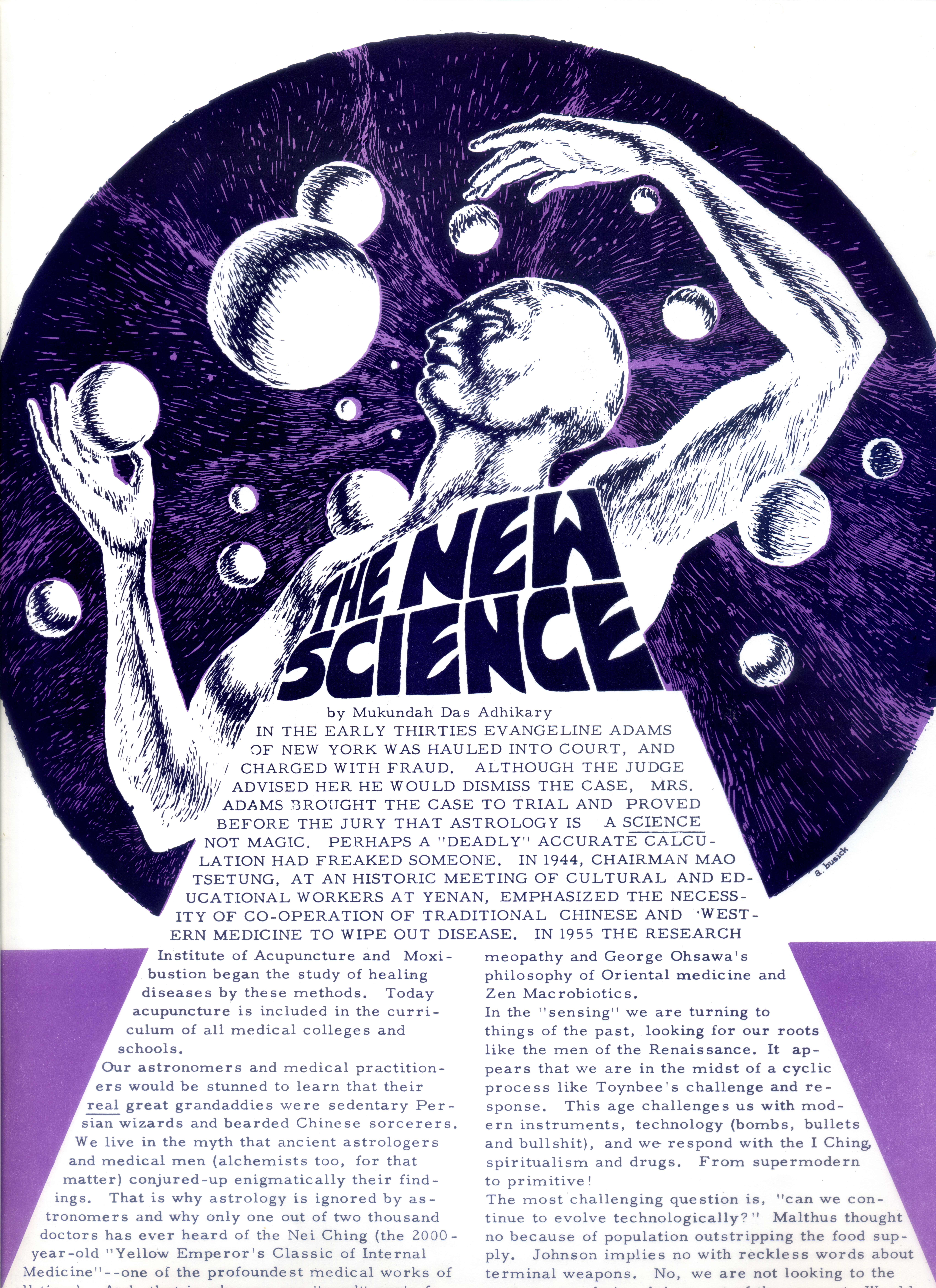 Article "The New Science" by Mukunda Das published in the San Francisco Oracle, vol.1 No.5 as a promoiton for the upcoming visit of Bhaktivedanta Swami to San Francisco